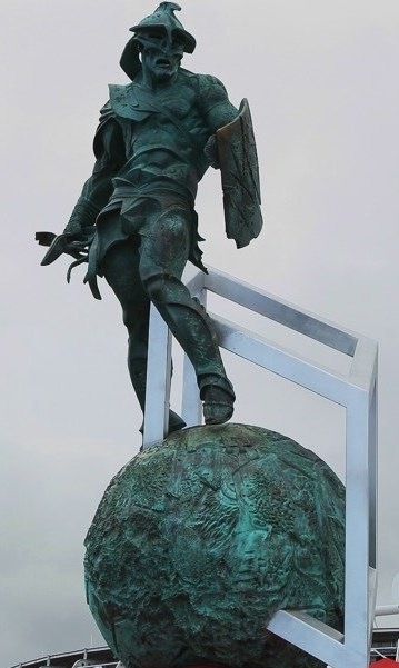 Otkrytie Arena